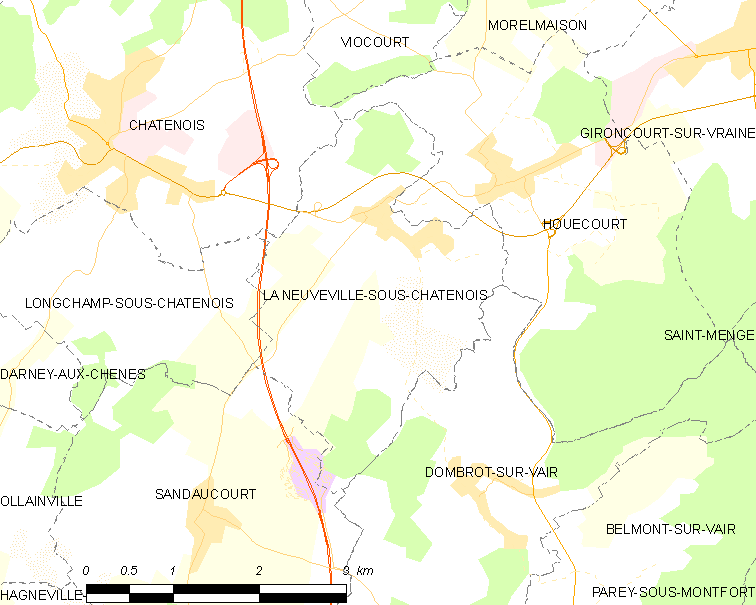 Map of French municipality La Neuveville-sous-Châtenois